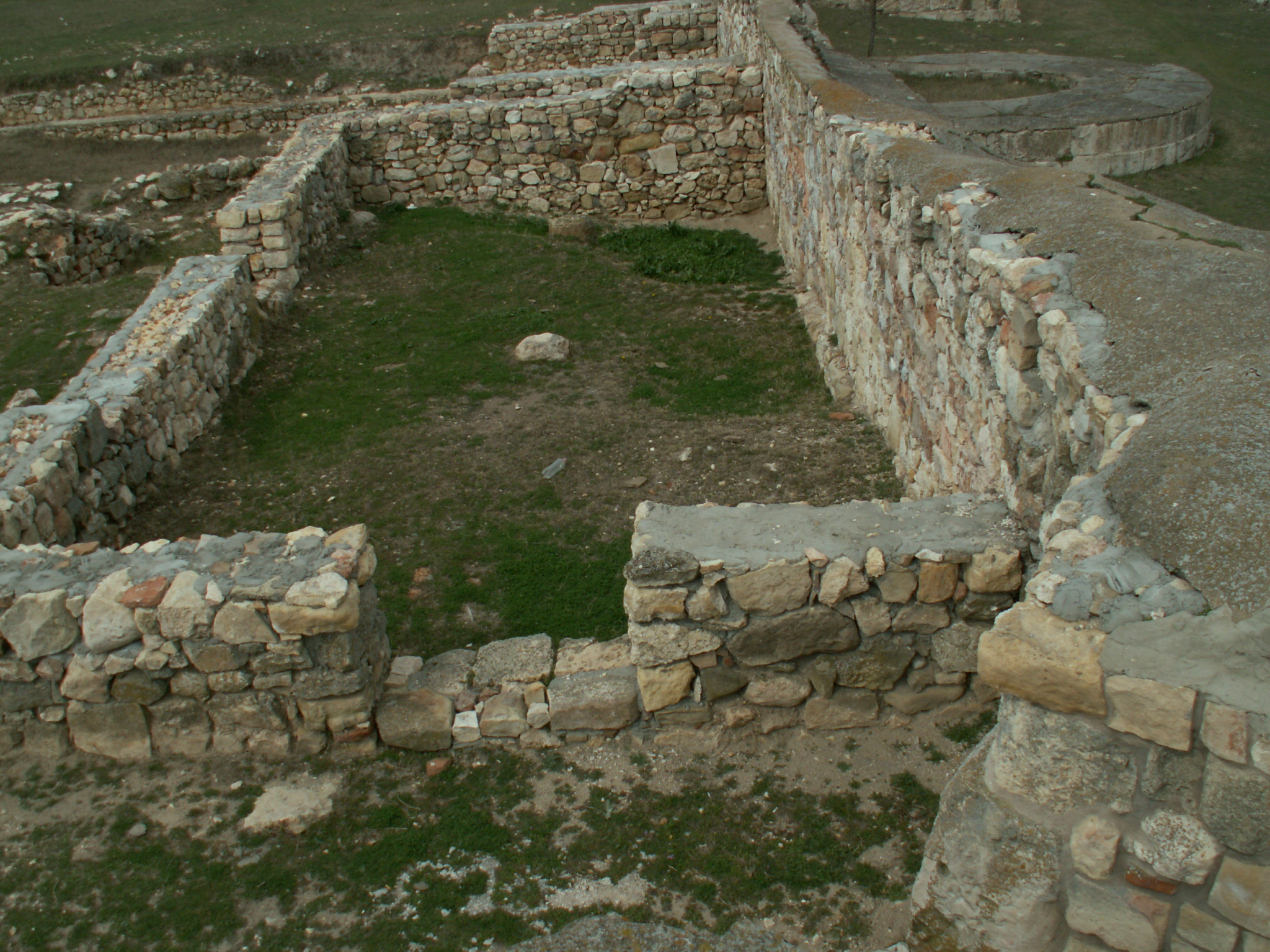 Ruins of the ancient Capidava fortress, in modern Capidava village, Constanţa County, Romania.